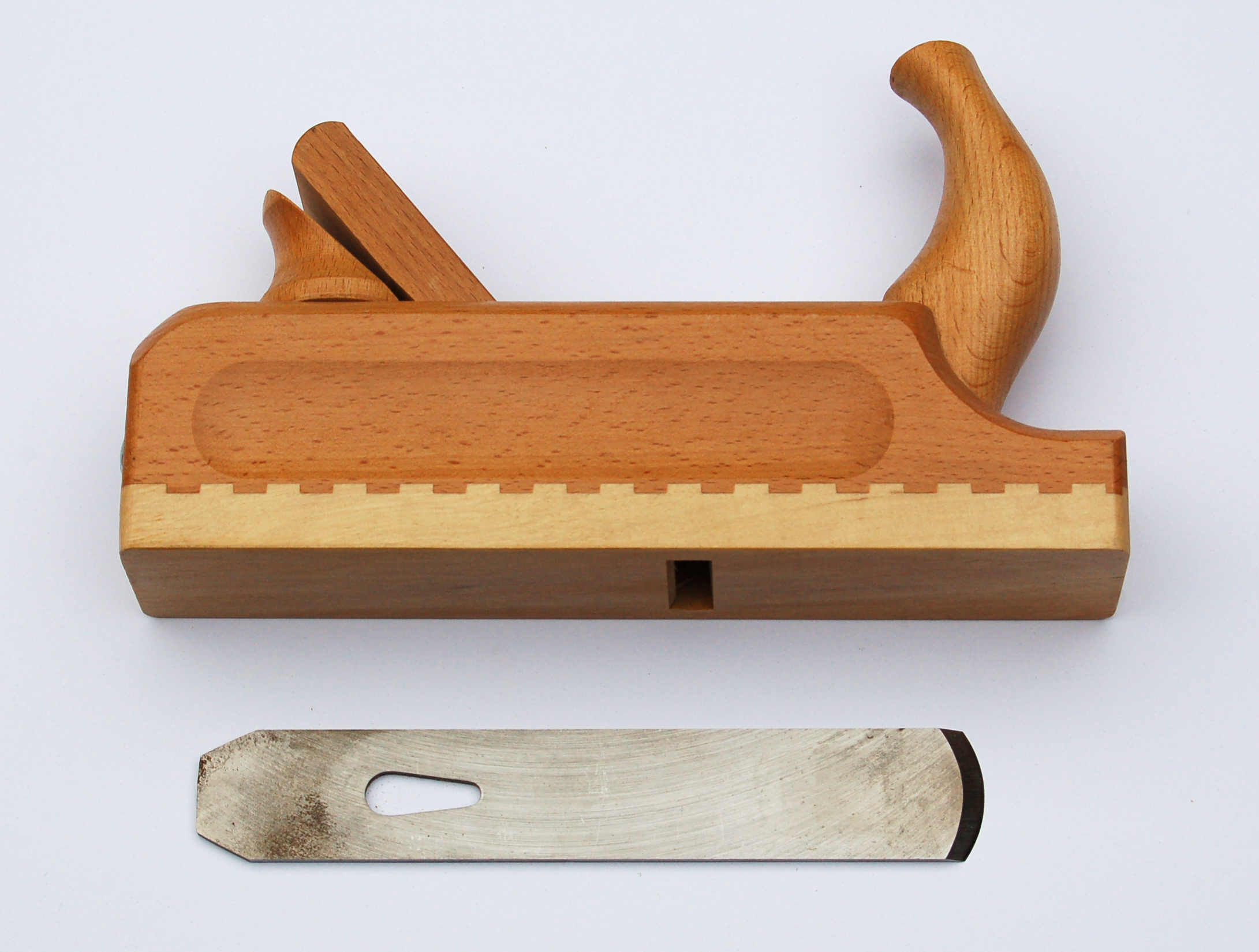 Plane